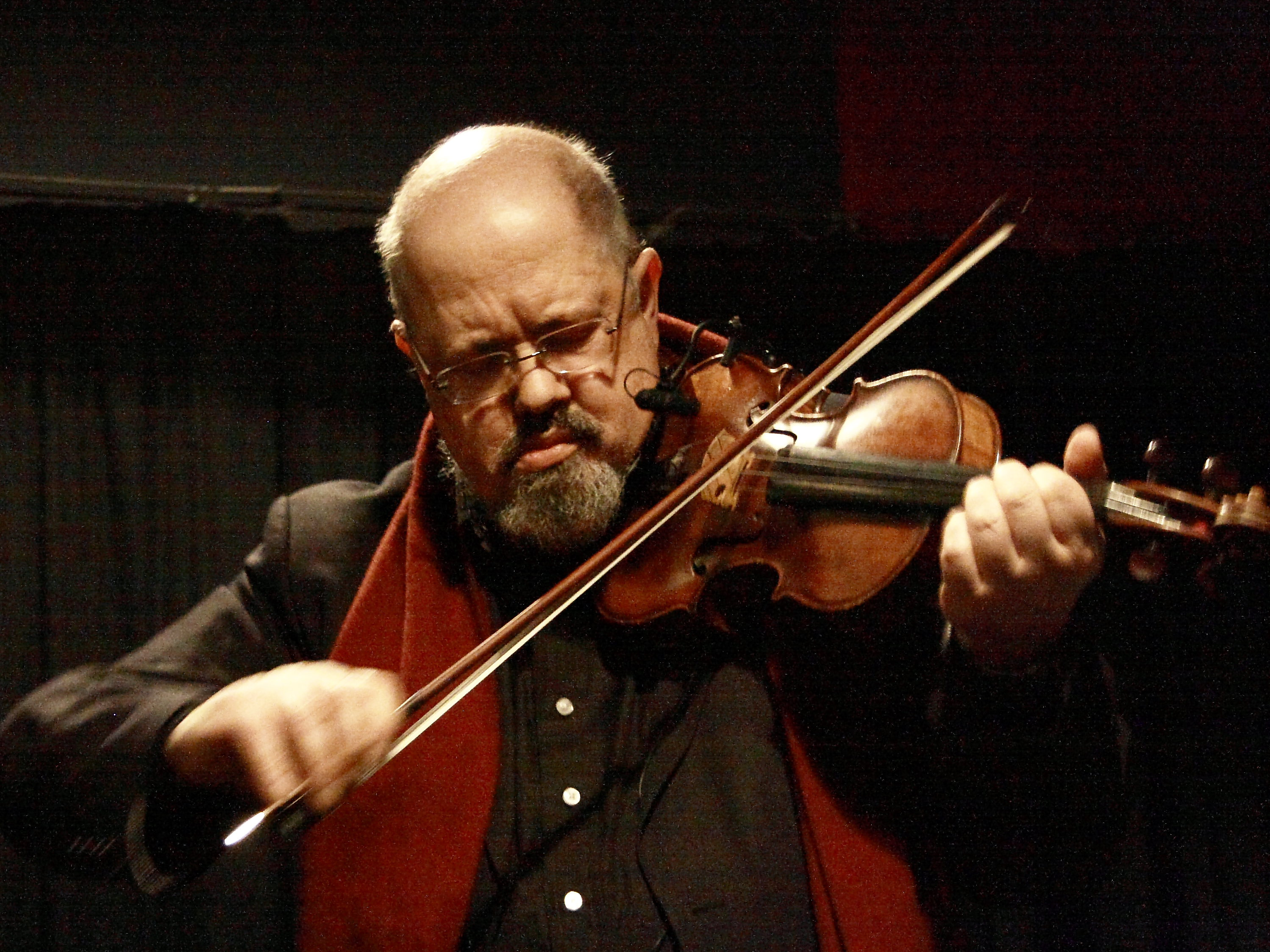 Philipp Wachsmann with Ken Vandermark & Paul Lytton (CINC) at Club W71, Weikersheim.